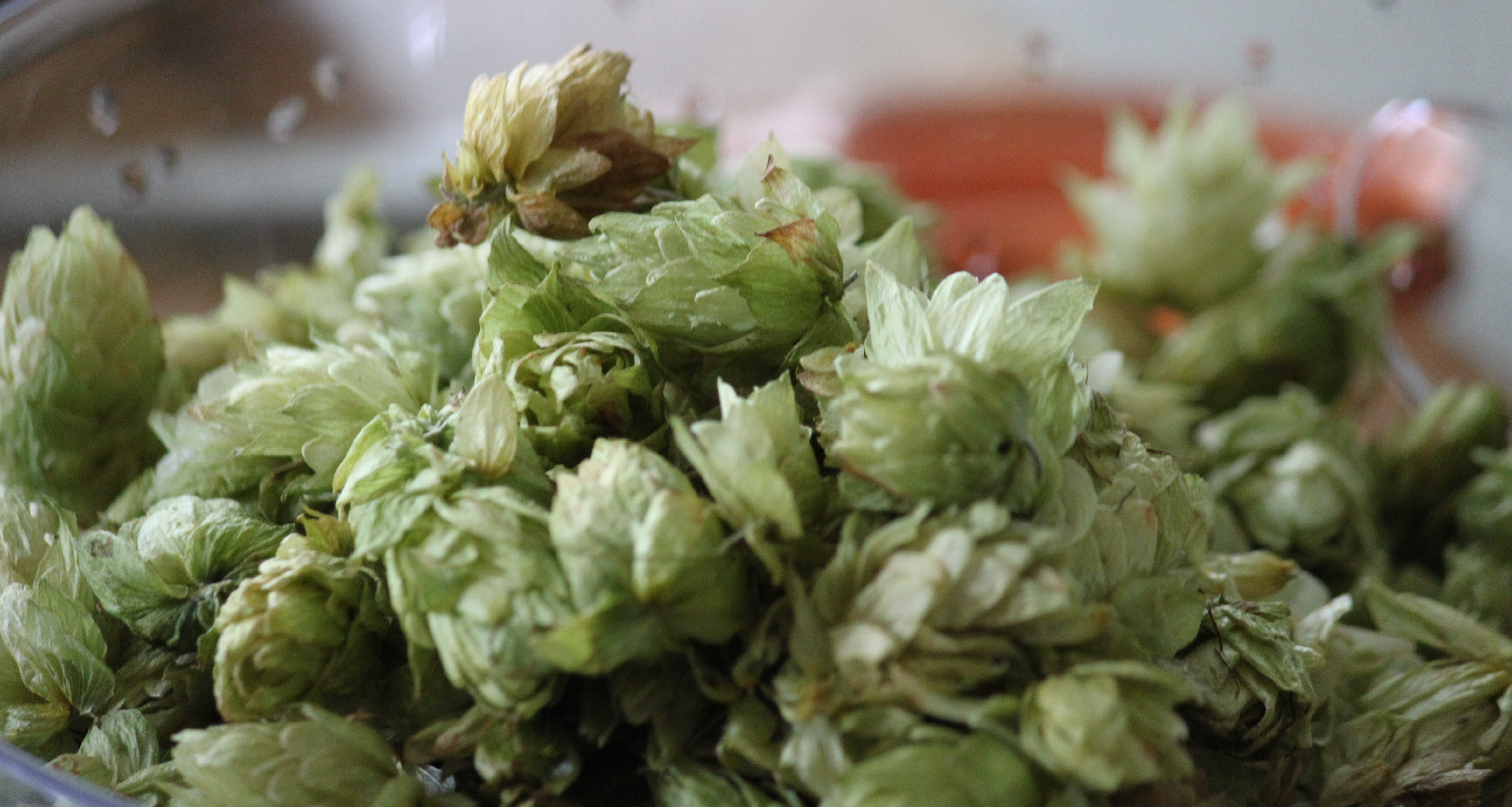 Freshly picked hops